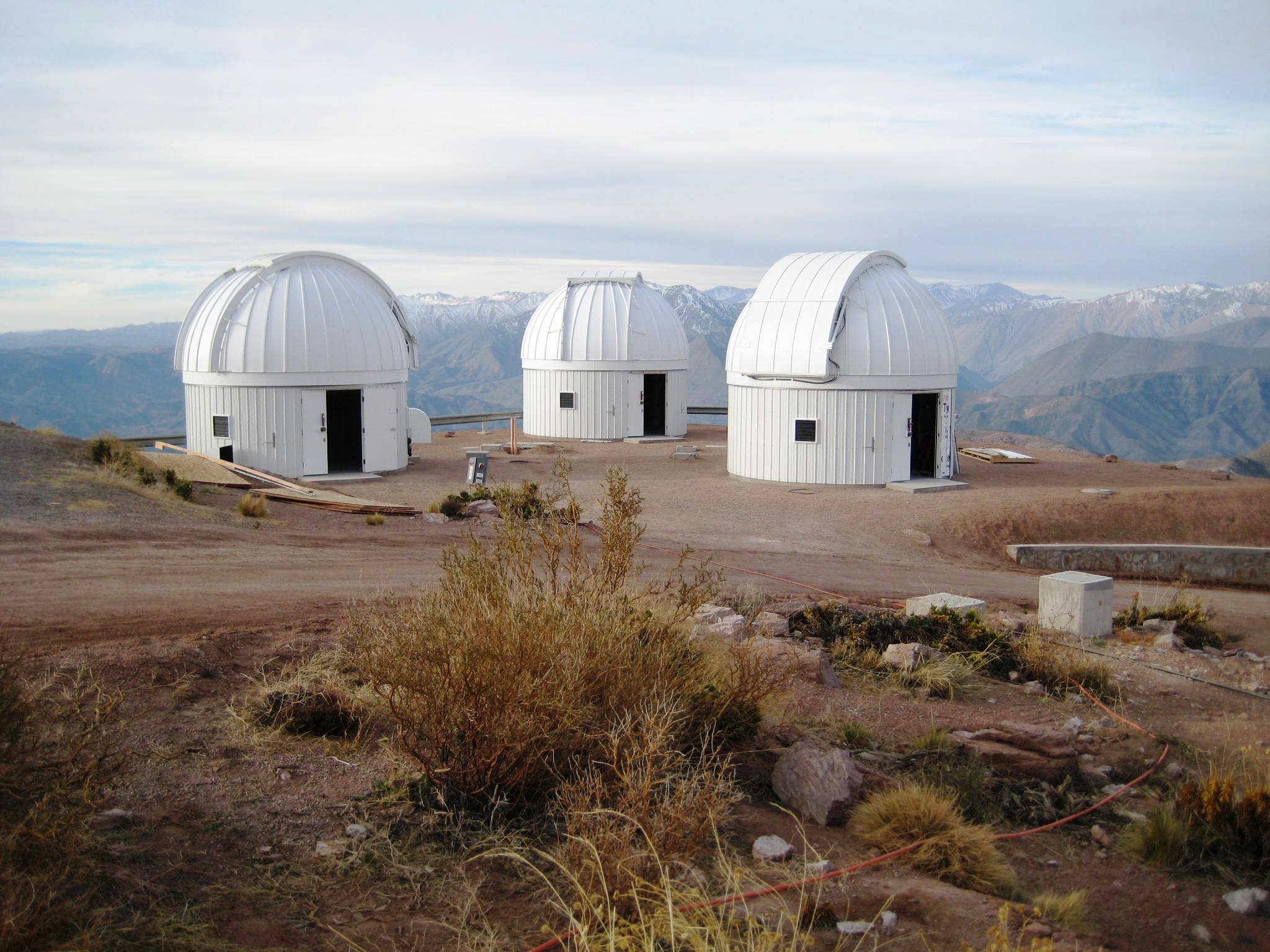 Las Cumbres Observatory Global Telescope Network 1-meter telescope node at Cerro Tololo, Chile.